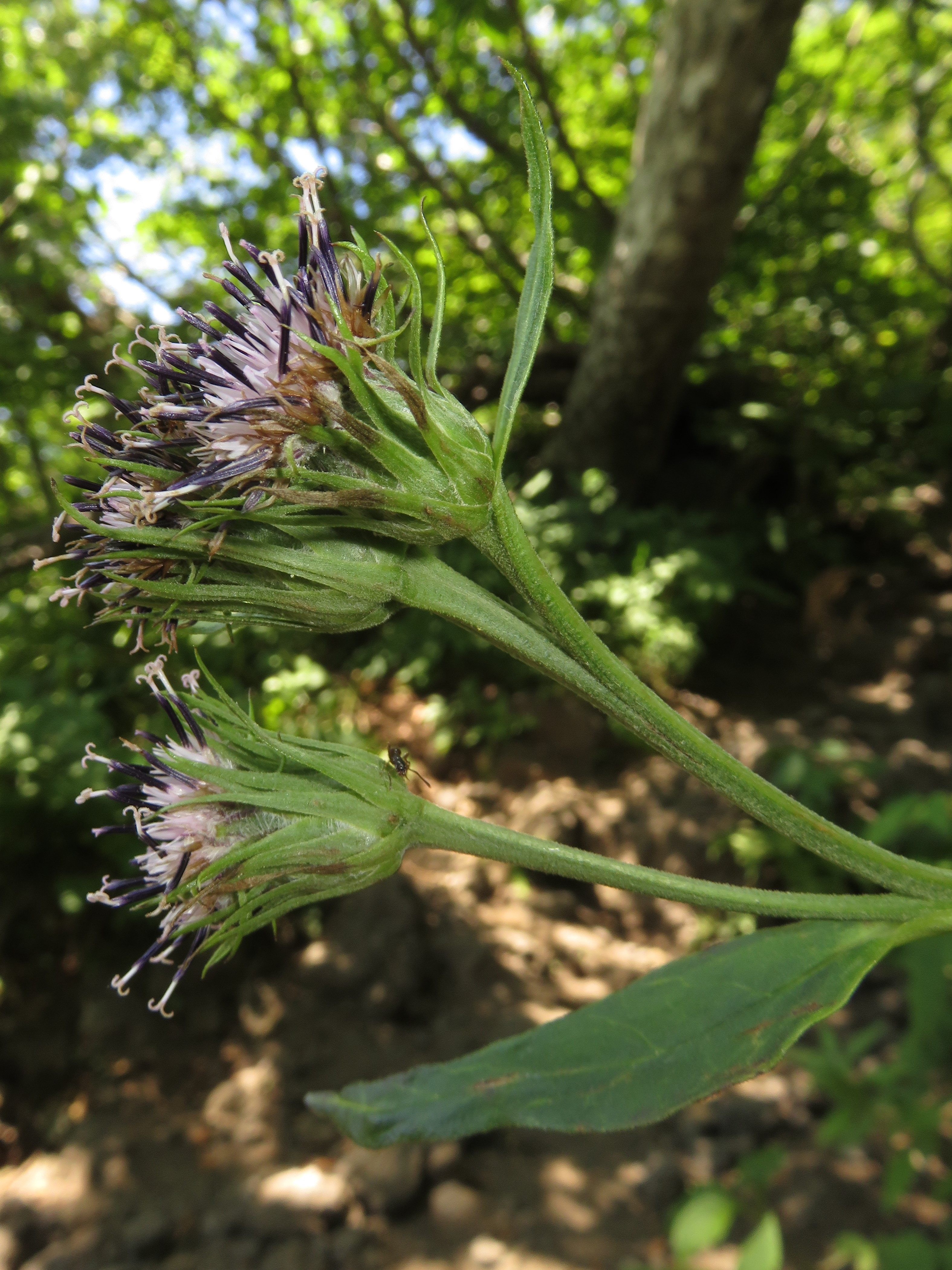 Saussurea brachycephala, Mount Iwate, Iwate pref., Japan